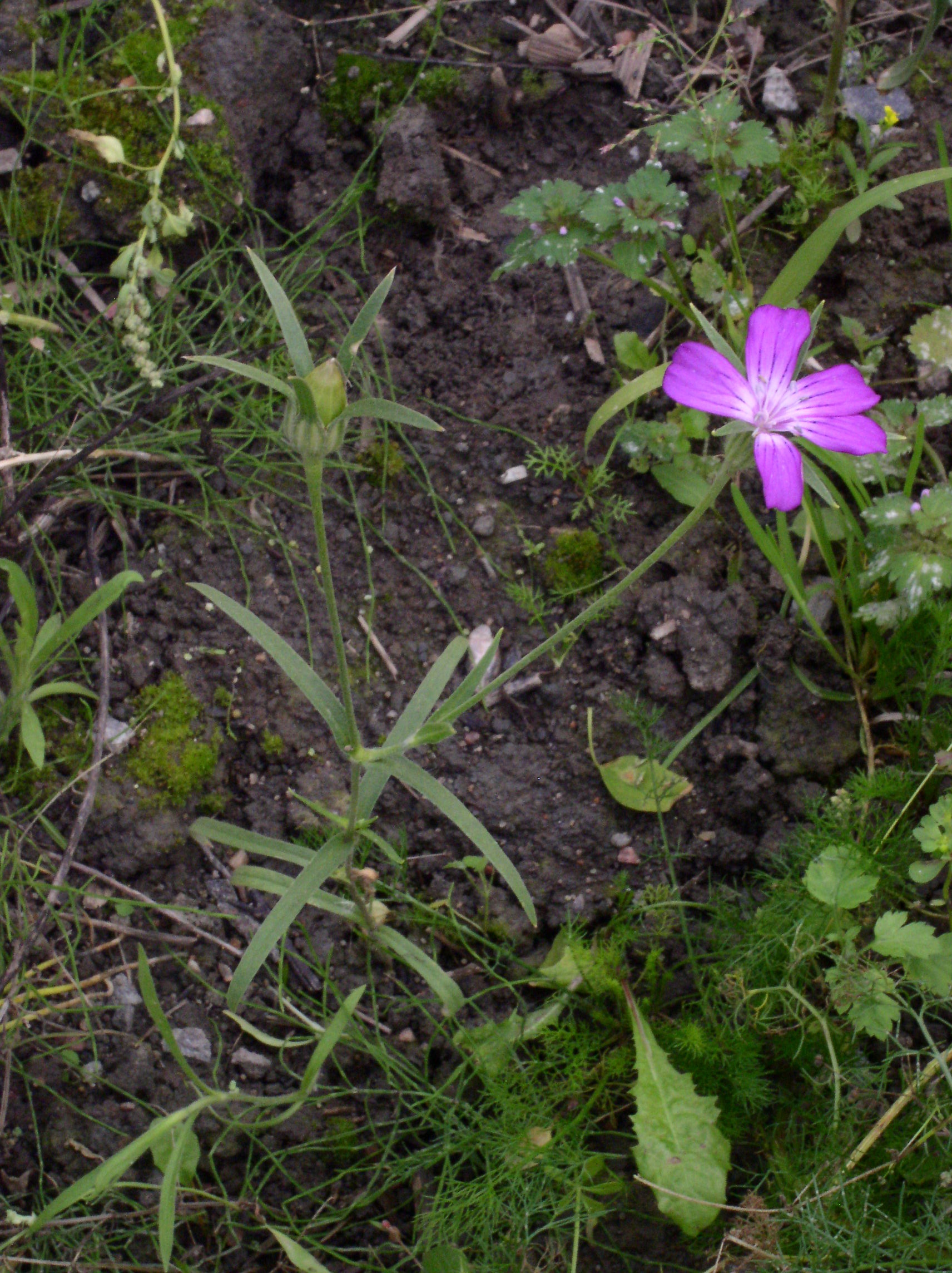 Common Corncockle (Agrostemma githago) plant in Turku, Finland.